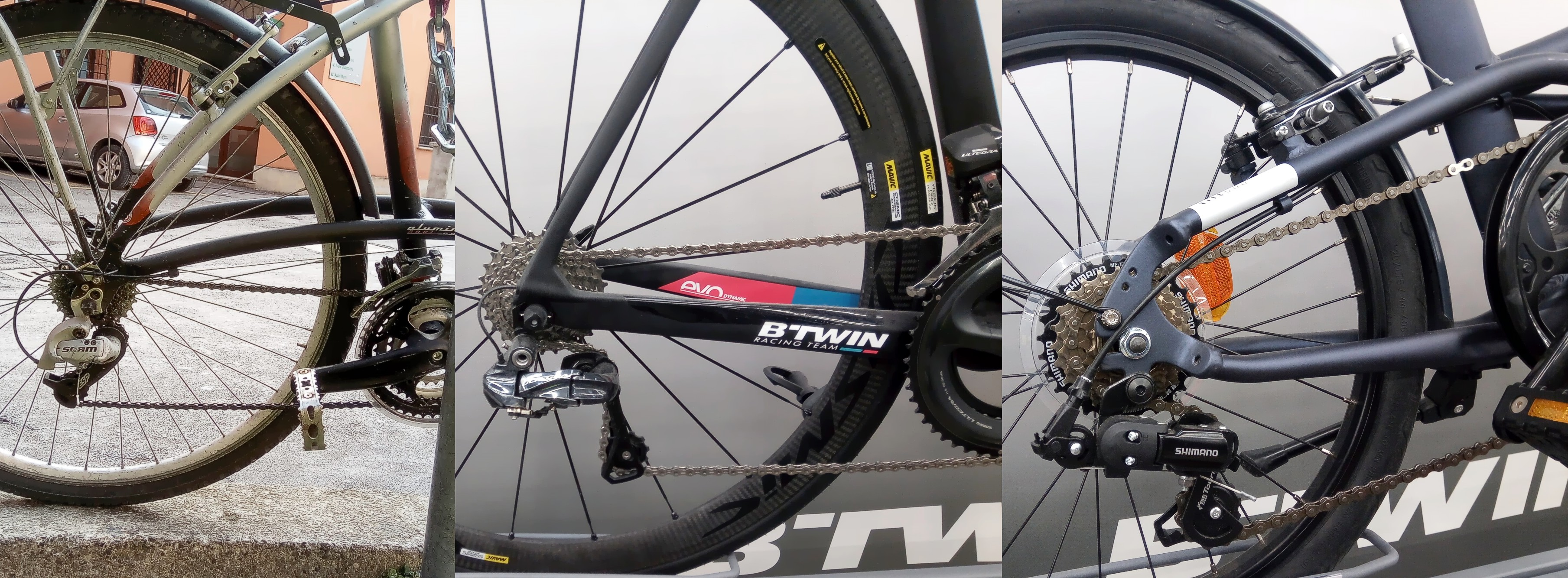 3 different examples of bike rear wagon, with high, traditional and low wagon, different solutions for chain passage (and chain beating), chassis stiffness and assembly speed